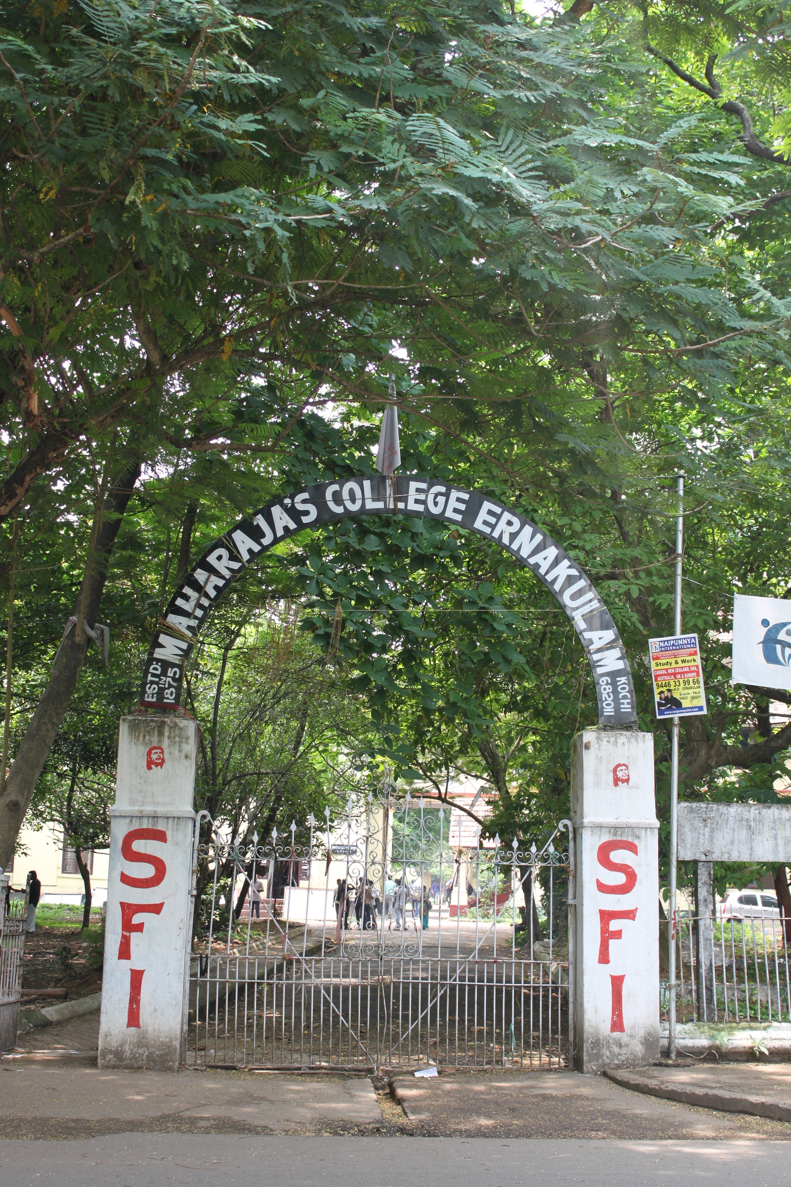 maharaja's college gate - ernakulam